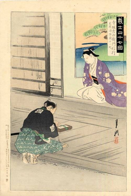 Ronin are masterless samurai. Chushingura is the true story of 47 samurai who became masterless in 1701, after their lord had been forced to commit ritual suicide (seppuku) for assaulting a court official who had insulted him. They avenged him by killing the court official after patiently planning for over a year. They were themselves then forced to commit seppuku. Though this file's name is Kurahashi Densuke Takeyuki, the samurai in this picture is really Terasaka Kichiemon Nobuyuki.